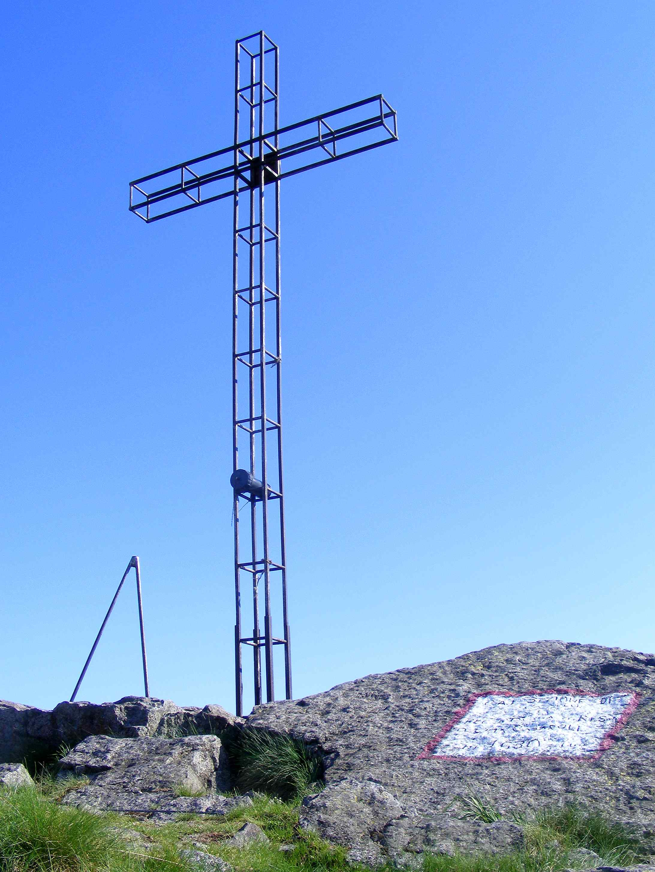 Bec d'Ovaga (VC, Italy): the cross on the top